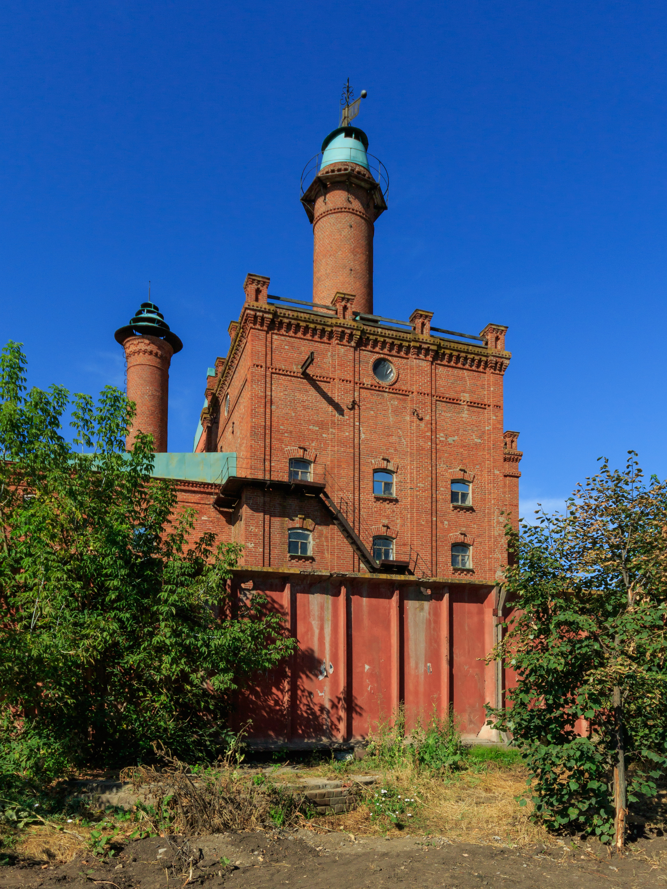 Petzold Brewery in Kazan, Russia